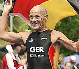 Günter Beilstein